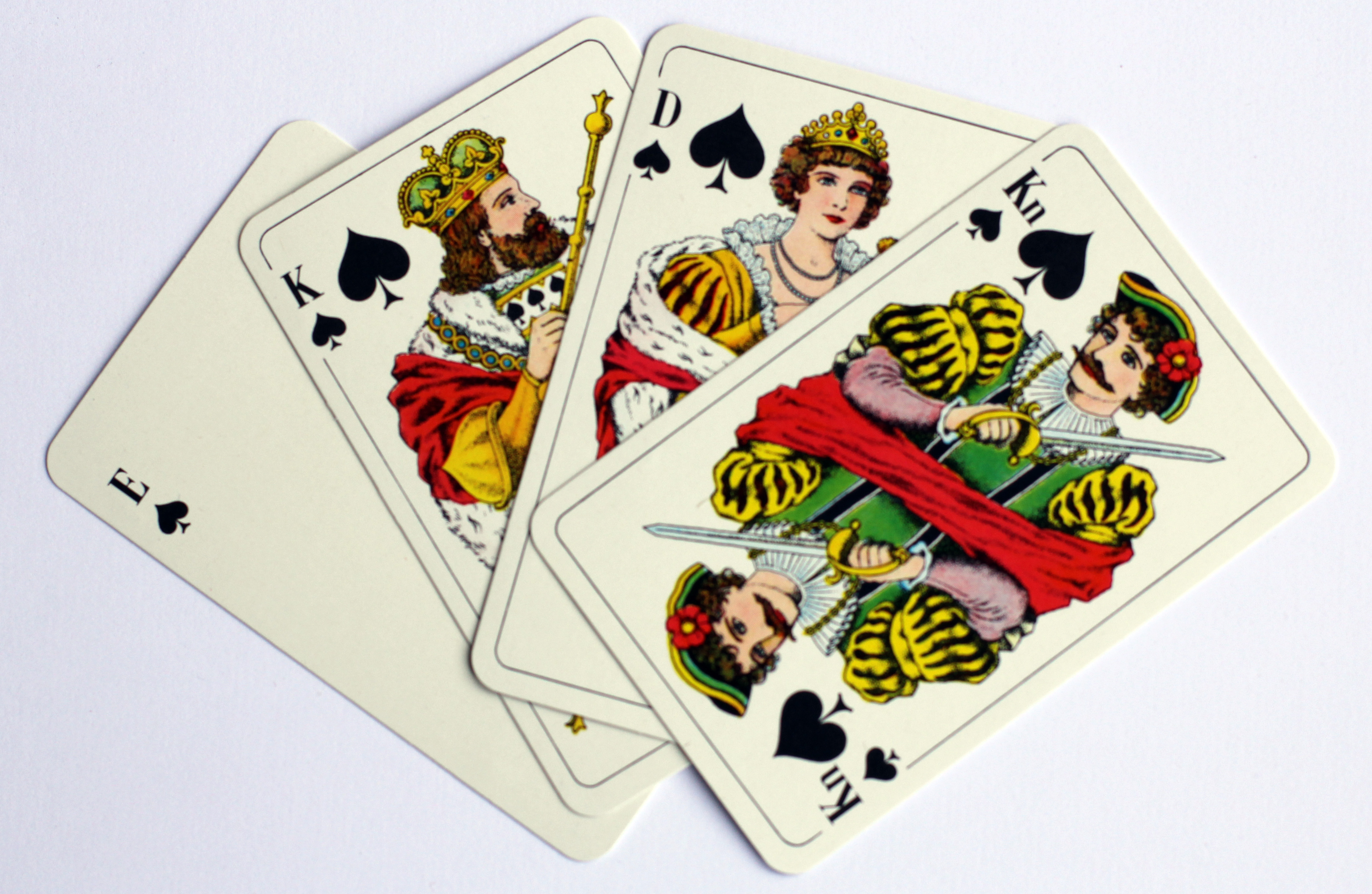 The Ace, King, Queen and Knave in the suit of Spades from a Modern Swedish pattern pack